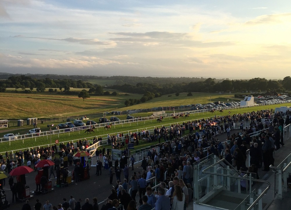 A photo taken from the Duchess Stand at Epsom Downs racecourse on the 28th July 2016